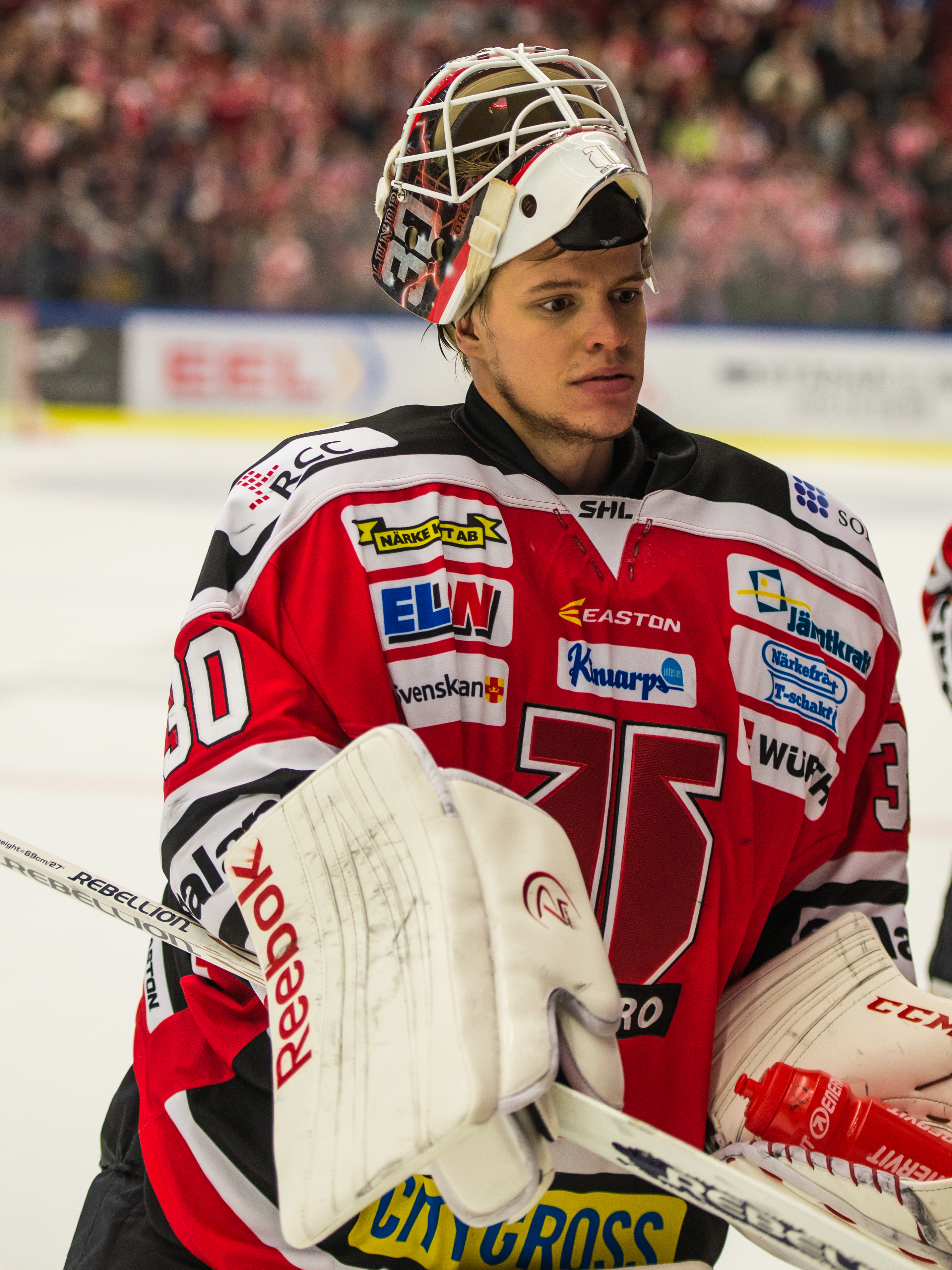 Henrik Lundberg playing for Örebro HK in SHL (Sweden's highest league) against MODO Hockey in Behrn Arena 2013-10-05.